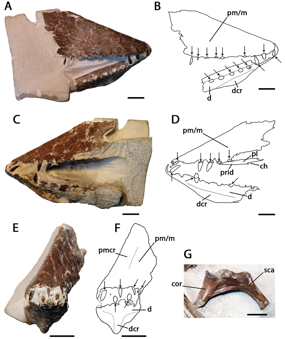 Lonchodraco giganteus comb. n. Lectotype NHMUK PV 39412 (Cenomanian / Turonian, Chalk Formation). A–F articulated anterior parts of the rostrum and mandible A right lateral view B respective line drawing C left lateral view D respective line drawing E anterior view F respective line drawing G associated scapulocoracoid in posterior view. Abbreviations: ch – choanae, cor – coracoid, d – dentary, dcr – dentary crest, m – maxillae, pl – palatine, pm – premaxillae, pmcr – premaxillaery crest, prid – palatal ridge, sca – scapula. Arrows indicate alveoli or teeth. Scale bar = 10 mm. Photos courtesy of The Natural History Museum.